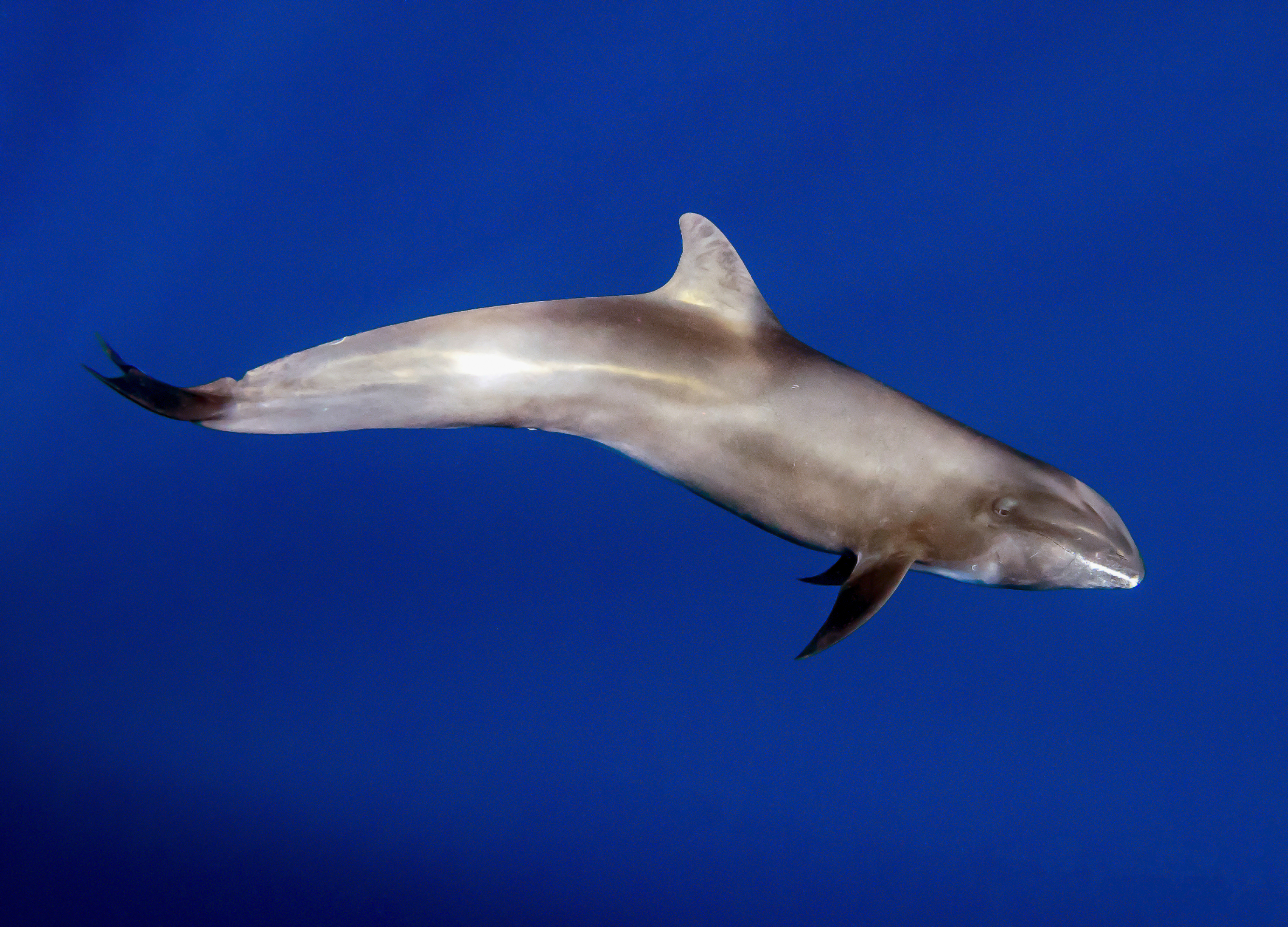 A Melon-headed dolphin (Peponocephala electra), observed in Mayotte.